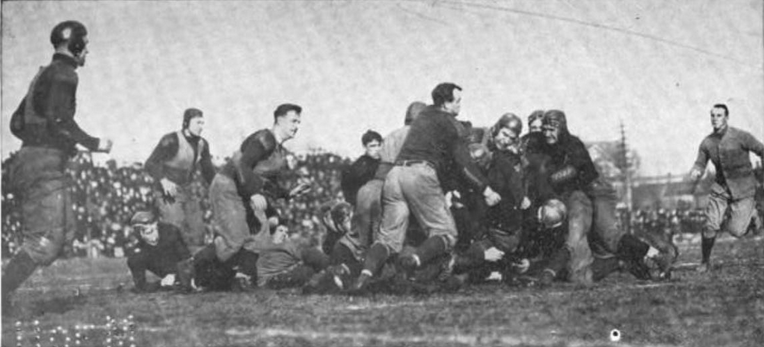 Photograph taken at the football game between Michigan and Minnesota at Northrop Field